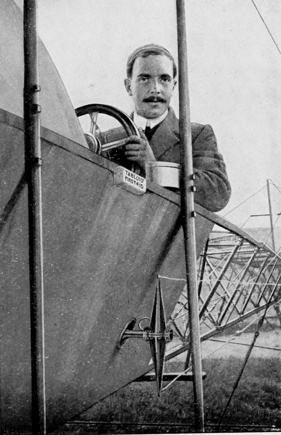 Howard Pixton, A V Roe's first test pilot, in an Avro biplane Photo taken around 1912